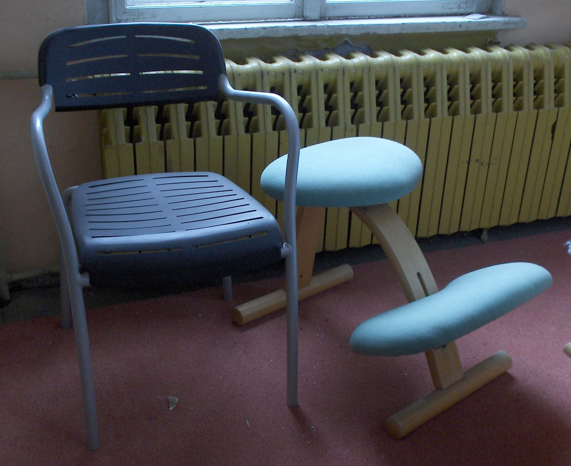 kneeling chair (to the right), greenblue upholstered and pine